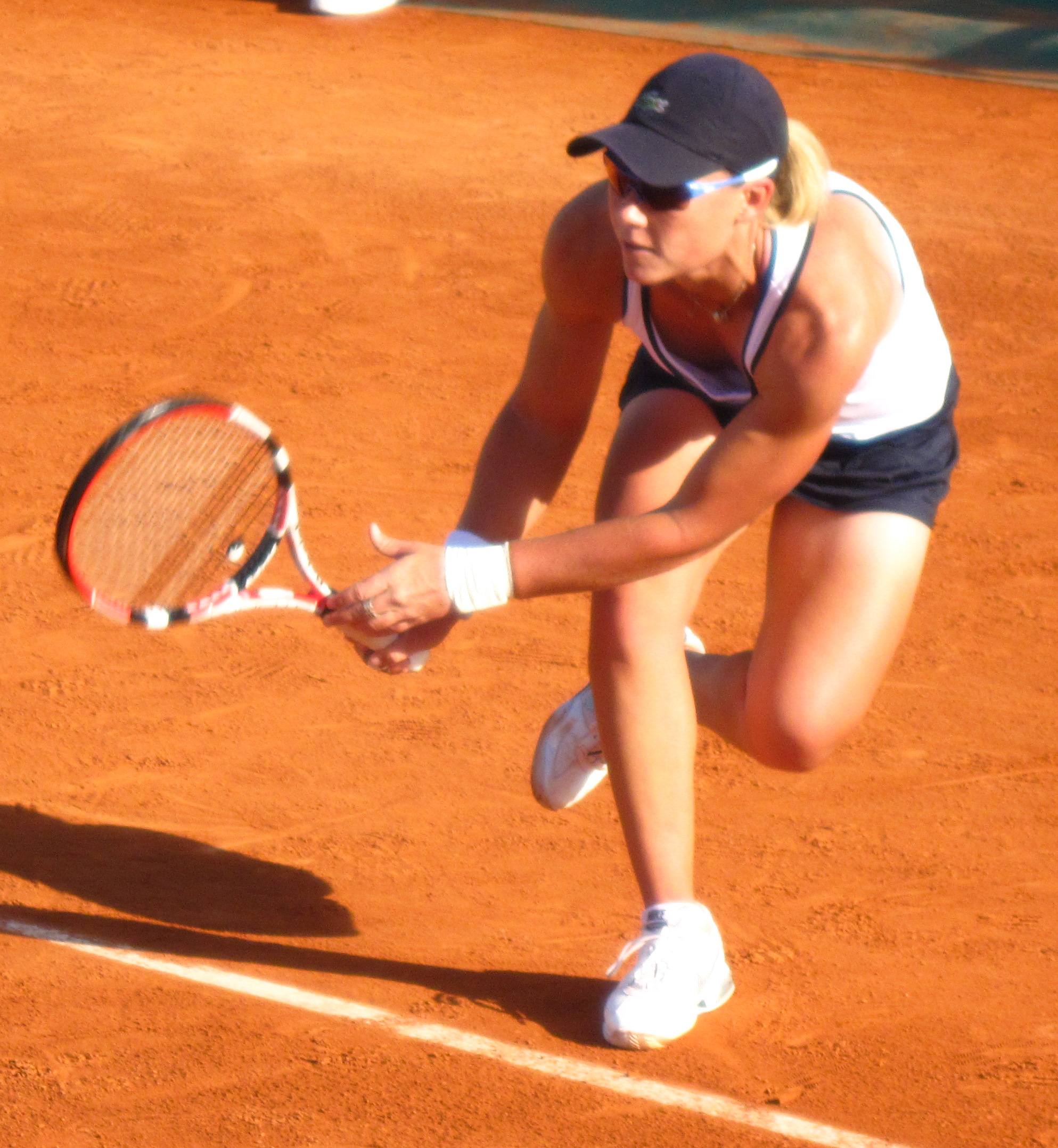 Samantha Stosur at 2009 Roland Garros, Paris, France